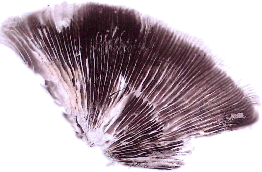 Psathyrella candolleana from 19th Avenue and Lincoln Way, San Francisco, California, USA found on a slight hill in dirt/grass, where water was dripping down onto the sidewalk. There was a cluster of light brown/tan capped mushrooms with very thin caps, dark brown gills, and thin hollow stipes that were mostly white, with a little brown near the top. A few inches next to it were mushrooms (also pictured) that looked identical in gill and stipe, also in clusters but with dark brown caps. These were also much wetter, like maybe advanced age. Both are very fragile. I ran through a bunch of possibilities in Mushrooms Demystified last night but various characteristics eliminated it. Incidentally the 3 black spored mushrooms (Coprinus?) I am about to also post were a few inches away. The spore print is brown (photos look a little blacker). The deposits are pretty thick in parts but even where it is thinner it seems a darker brown, not a light brown.